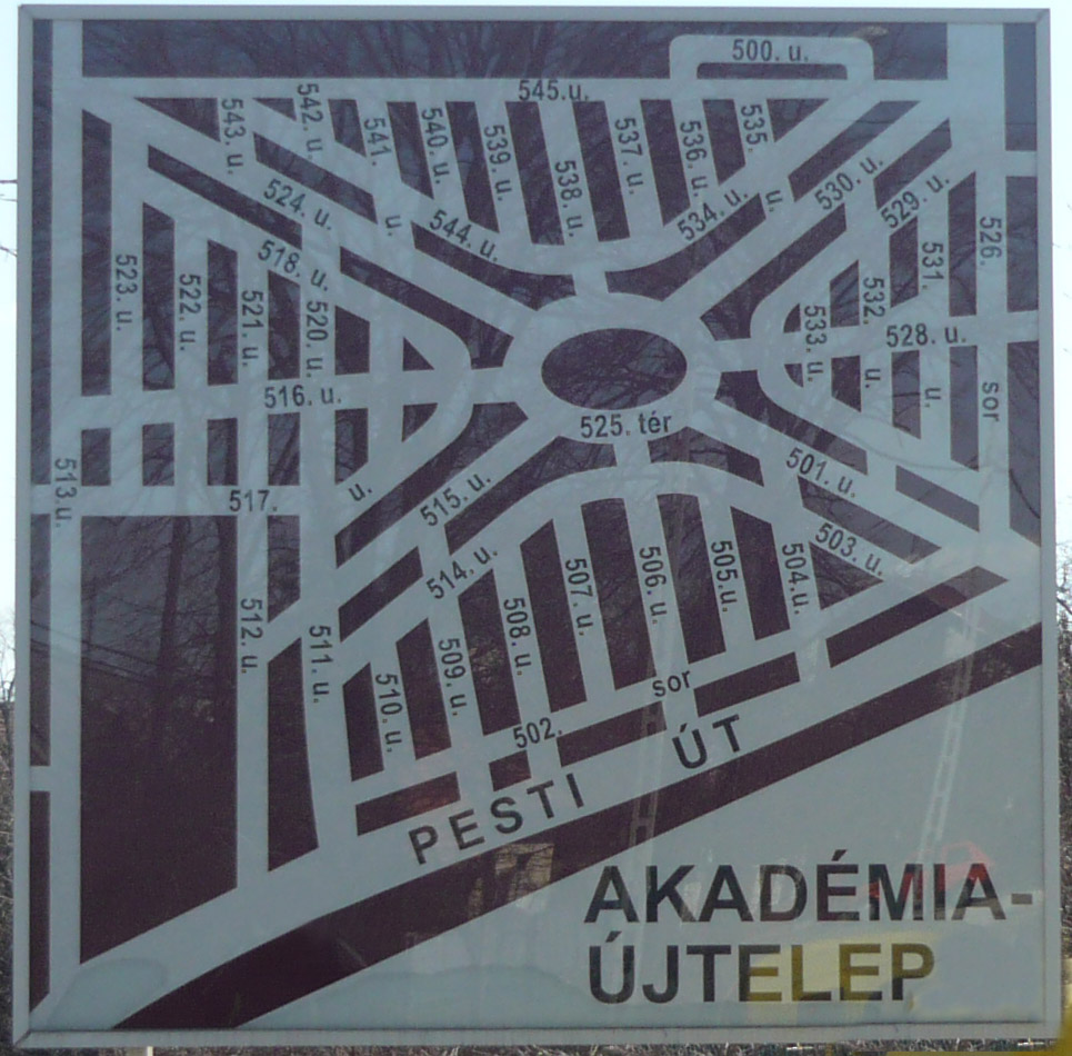 Map of Akadémiaújtelep (part of the 17th district of Budapest) on a board in the 525. square